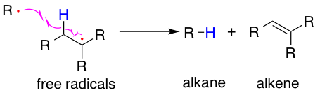 Radical disproportionation via radical elimination mechanism